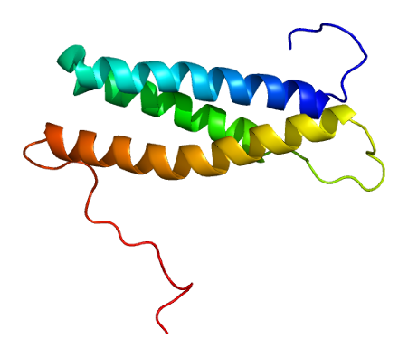 Structure of the SPG20 protein. Based on PyMOL rendering of PDB 2dl1.